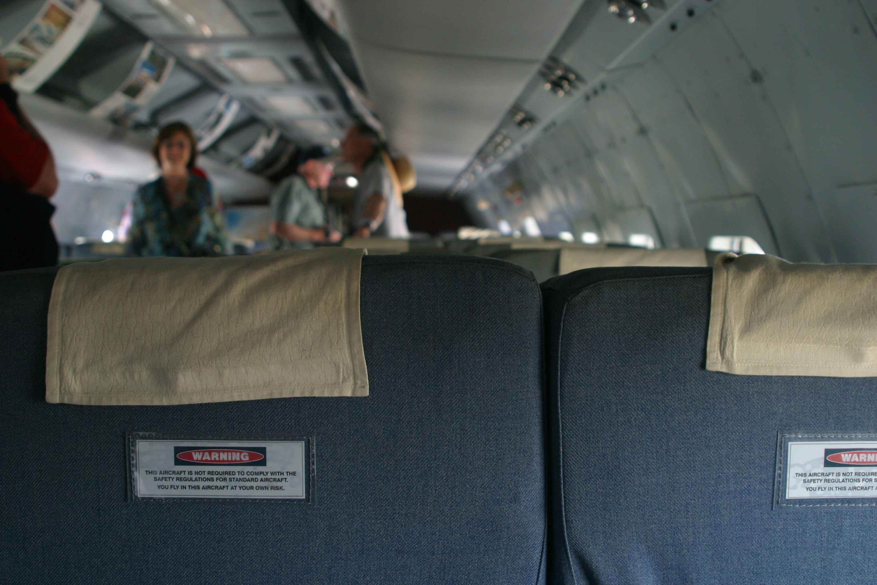 Interior of Lockheed L1049 Super Constellation (registration VH-EAG) with warning of experimental aircraft